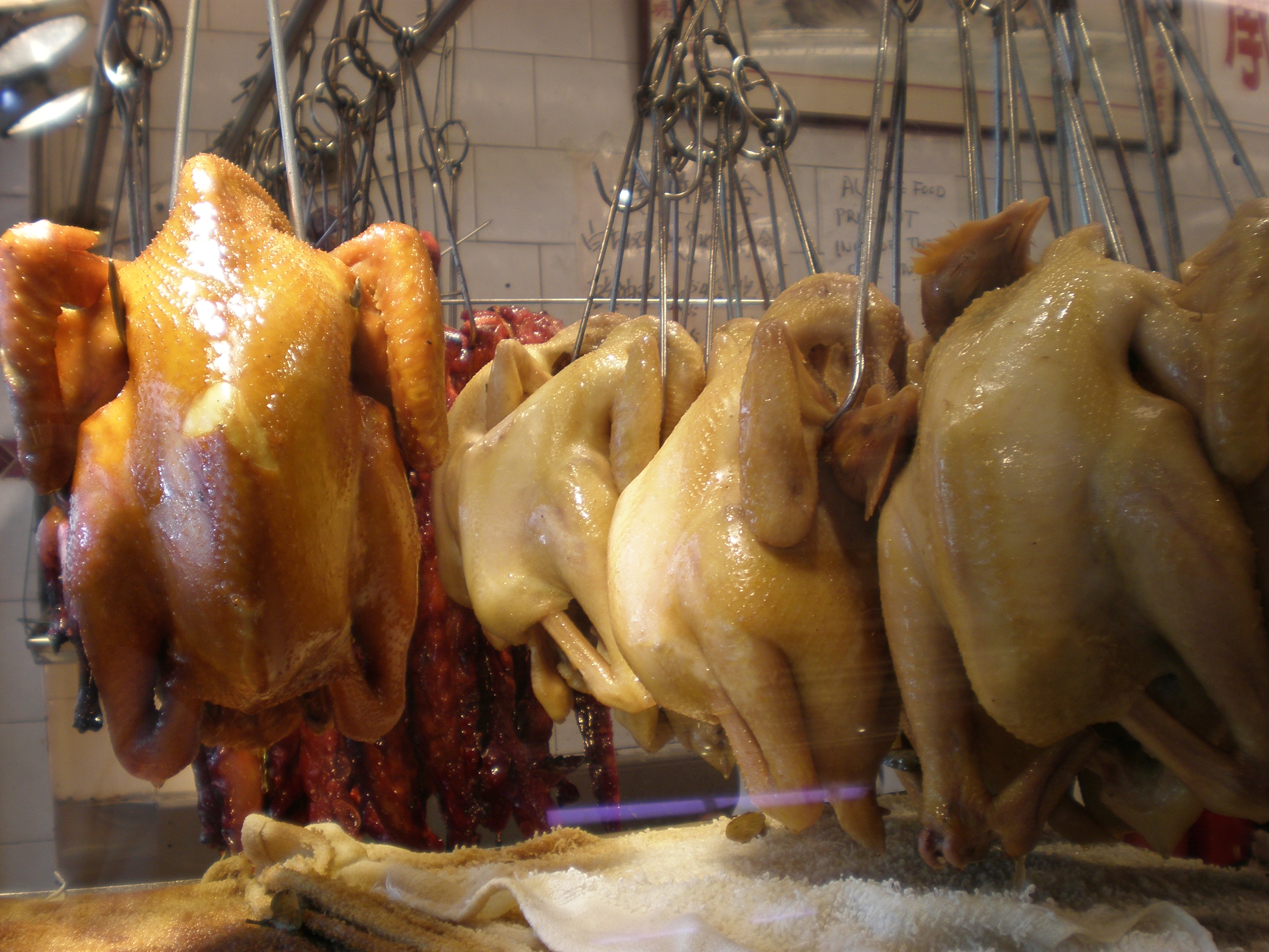 Chicken hanging from the window of a grocery store in Chinatown, San Francisco.